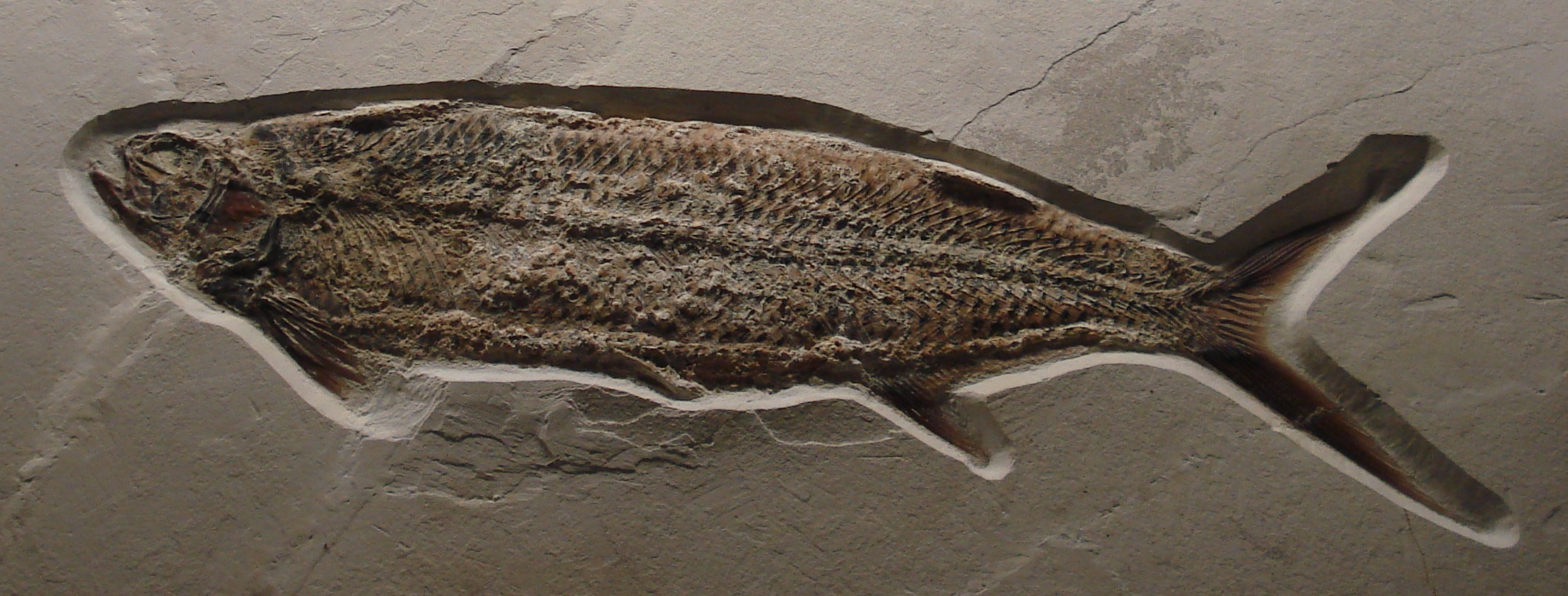 fossil of thrissops